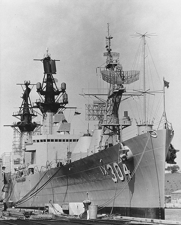 At the Hunters' Point Naval Shipyard, San Francisco, California, circa October 1964, while completing conversion to a weapons effects test ship. The original picture caption, released by 12th Naval District Office of Public Information, reads: "The various masts and antennas that will be subjected to the blast tests cover the forecastle of the Atlanta. This equipment is primarily the type used in the fleet today."